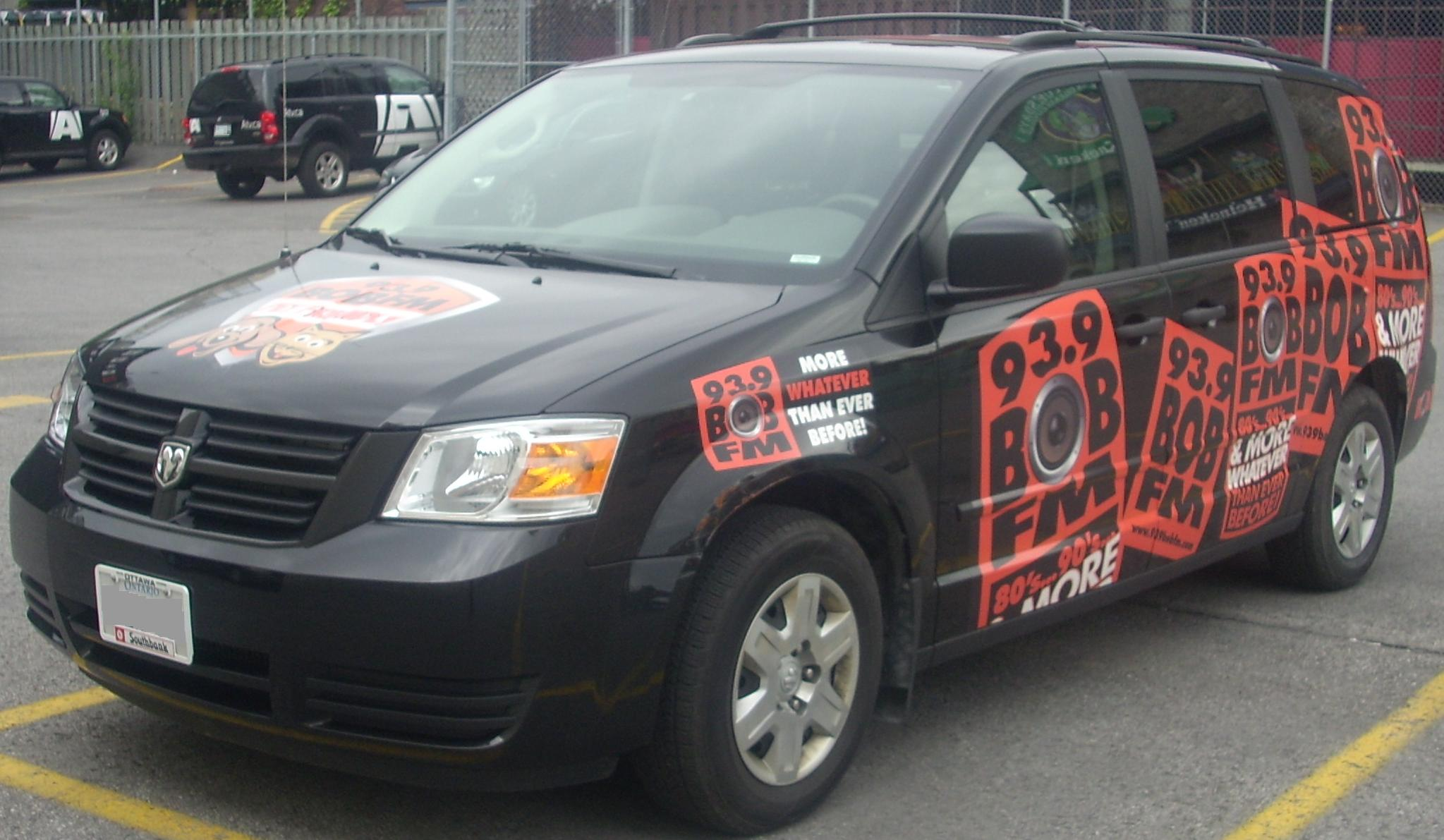 2008-present Dodge Grand Caravan (93.9 Bob FM) photographed in Ottawa, Ontario, Canada at the Byward Market Auto Classic 2009.